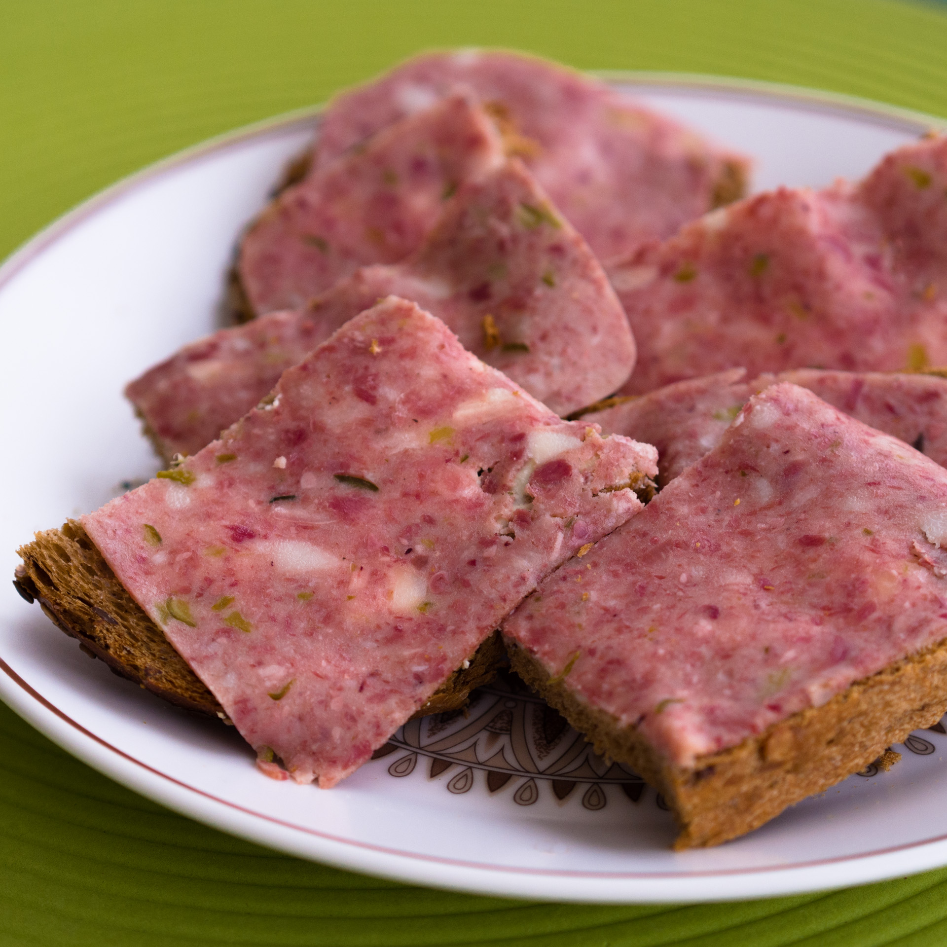 Commercially made zure zult (lit. "soured salted"). It is the Dutch word for head cheese. Zure sult is most often eaten as a cold cut on bread. Traditionally made from pork, commercial variants, such as this one, can also contain meats from other animals.